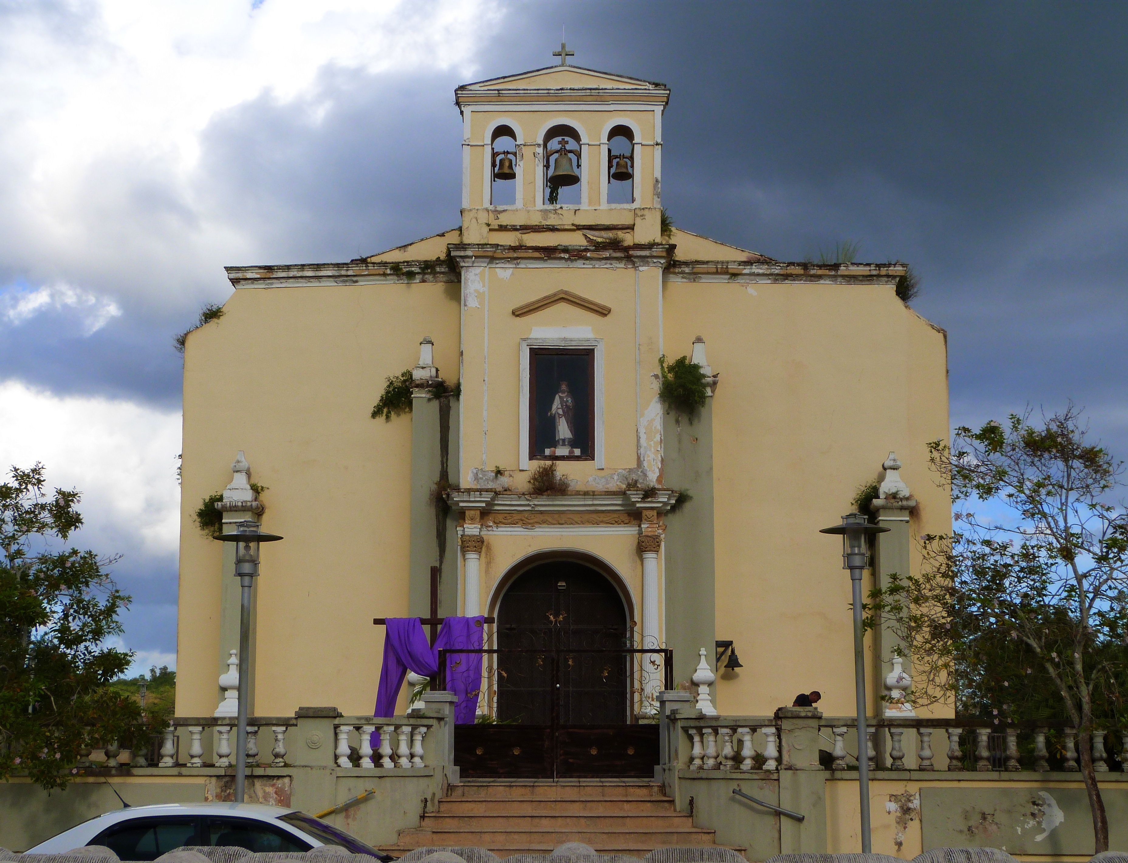 The historic Church of Our Lady of the Conception and Saint Fernando (built 1752–1826), located on the town plaza in Toa Alta, Puerto Rico, is listed on the U.S. National Register of Historic Places.